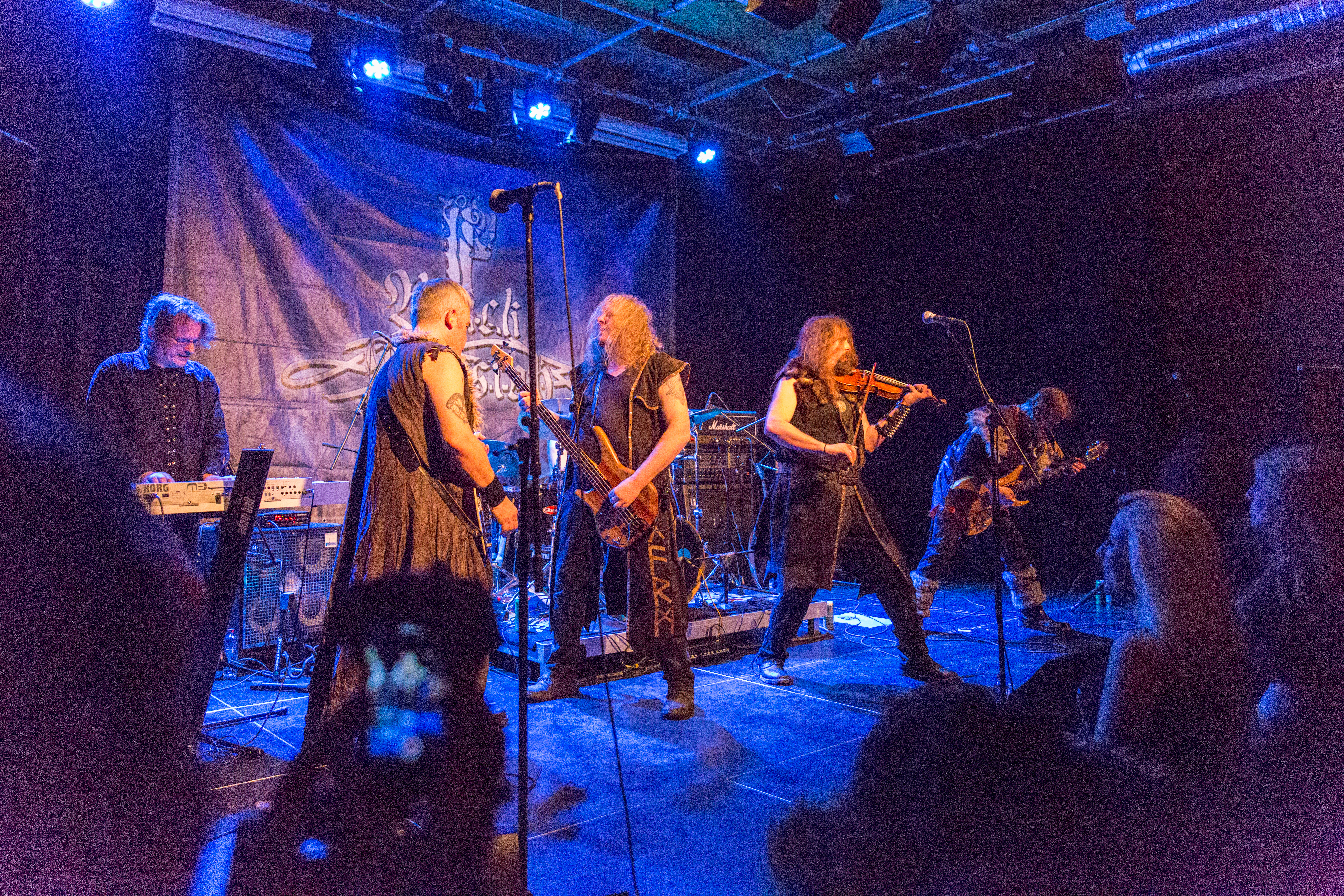 Black Messiah (viking-metal, Allemagne) au Wild Boar Fest, Villa Tacchini, Petit-Lancy (Suisse), 6 février 2016